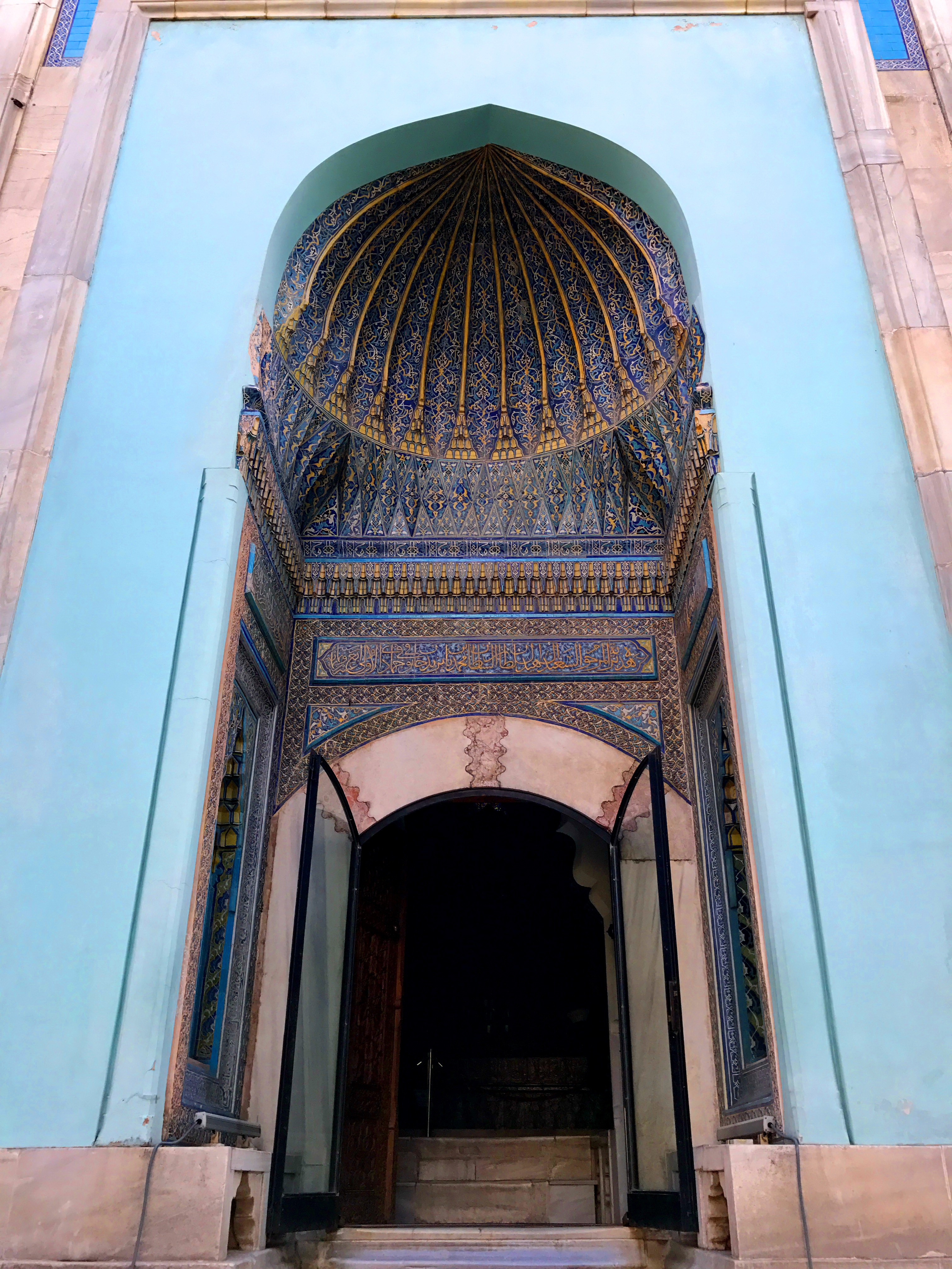 The Green Tomb (Yeşil Türbe) is a mausoleum of the fifth Ottoman Sultan, Mehmed I, in Bursa, Turkey. It was built by Mehmed's son and successor Murad II following the death of the sovereign in 1421. The architect, Hacı Ivaz Pasha designed the tomb and the Yeşil Mosque opposite to it